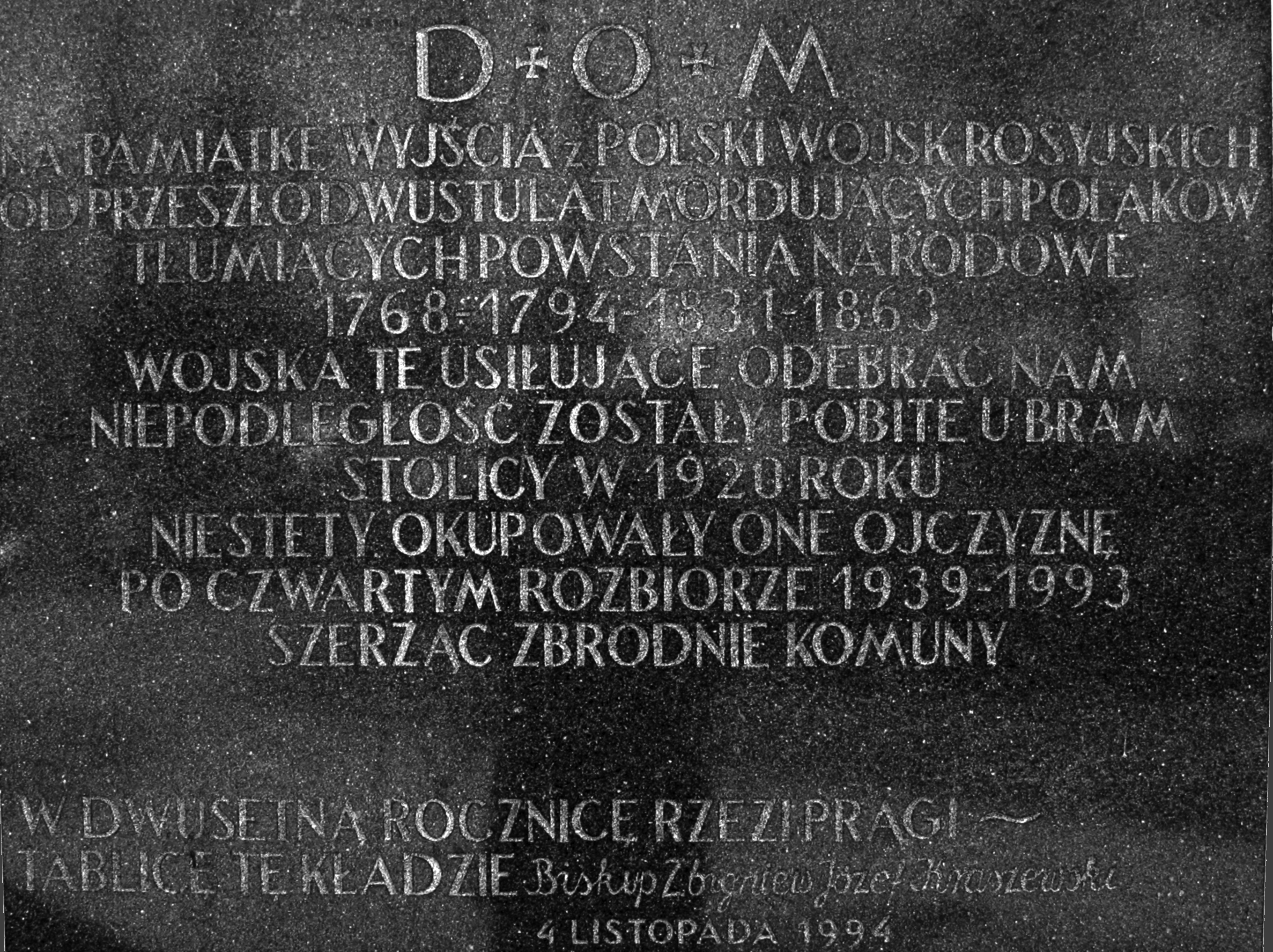 Plaque commemorating exit of Russian Army from Poland in 1993 in Our Lady of Victory church in Warsaw